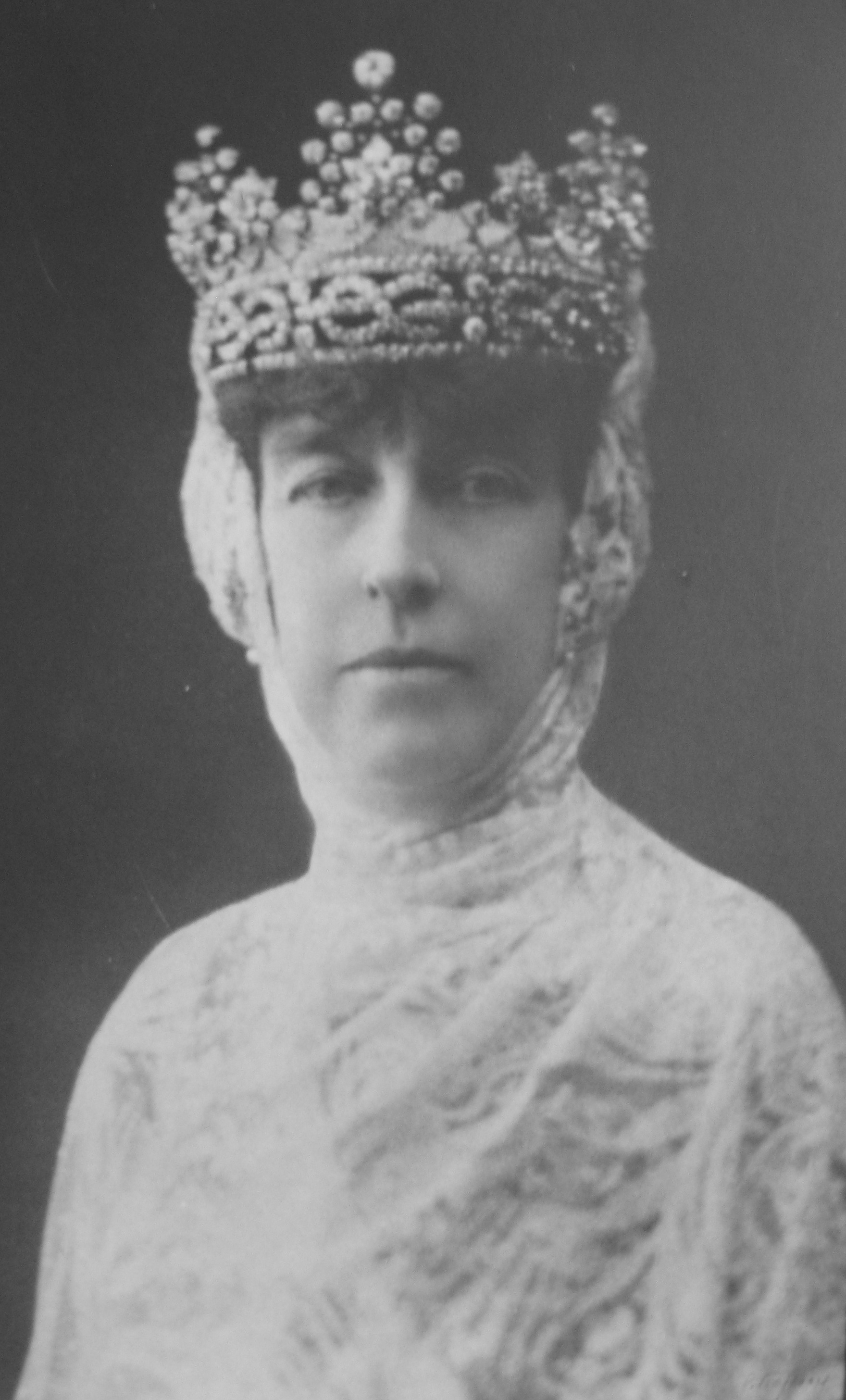 Photograph of Hélène, Dowager Duchess of Aosta